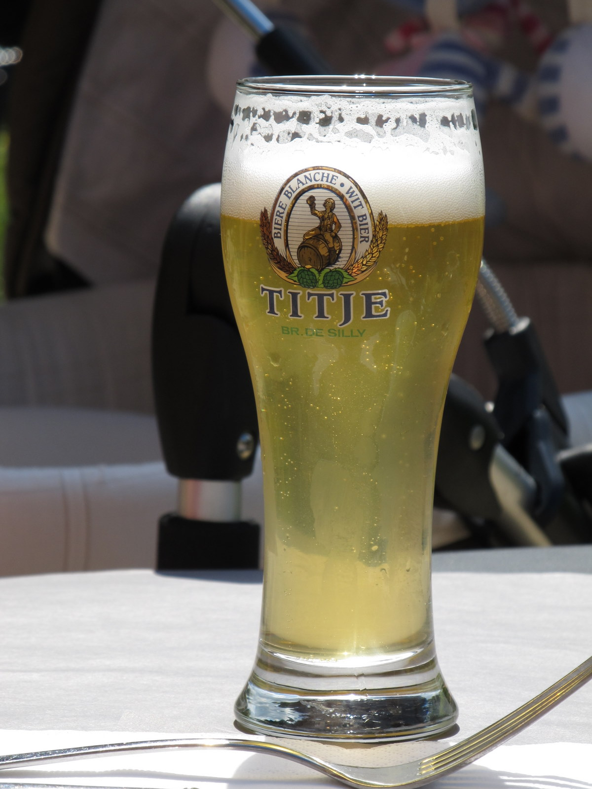 Provincial domain of Huizingen